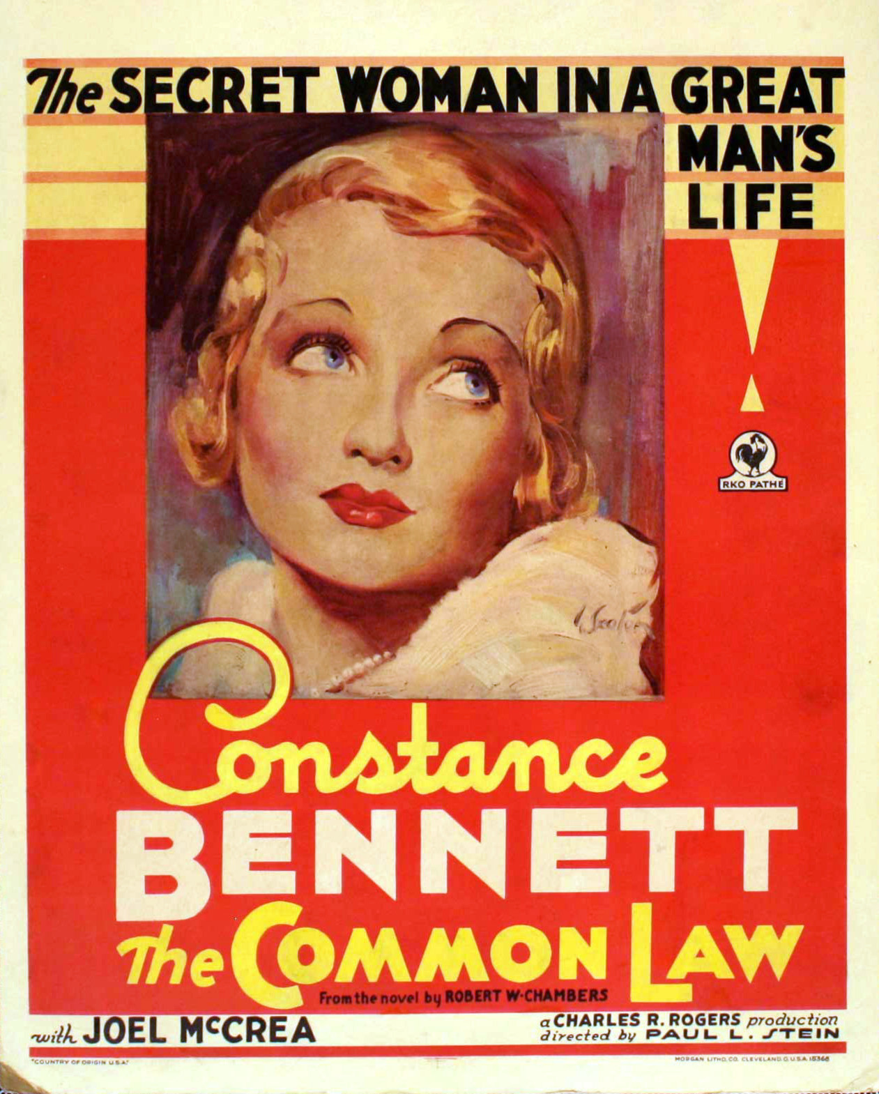 Window poster for the American romantic drama film The Common Law (1931).